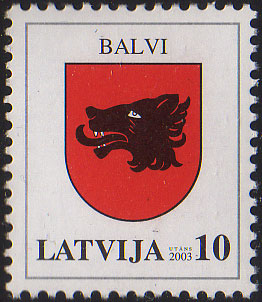 Latvian postage stamp definitive depicting the Balvi town coat of arms.